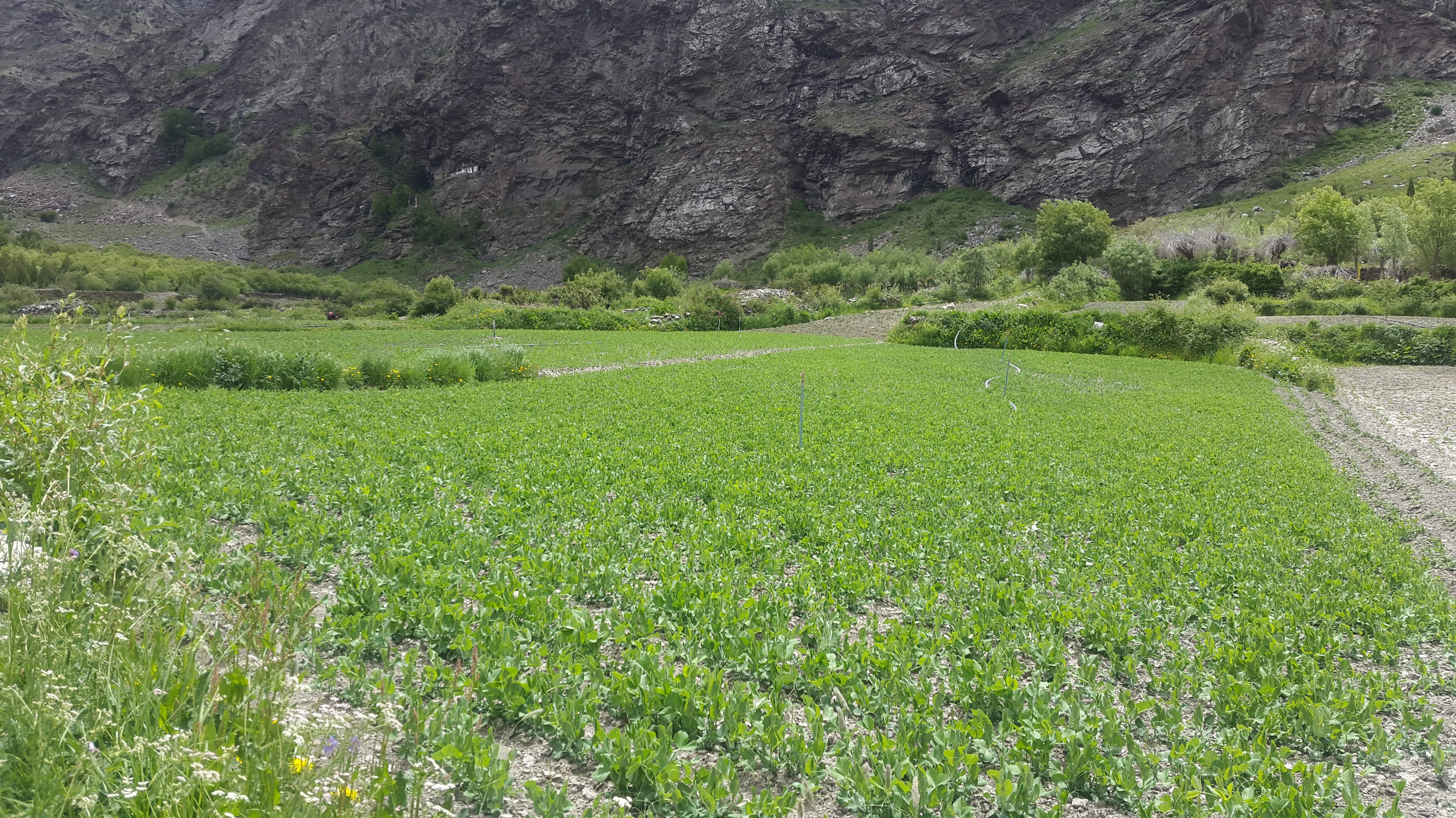 Green peas plantation